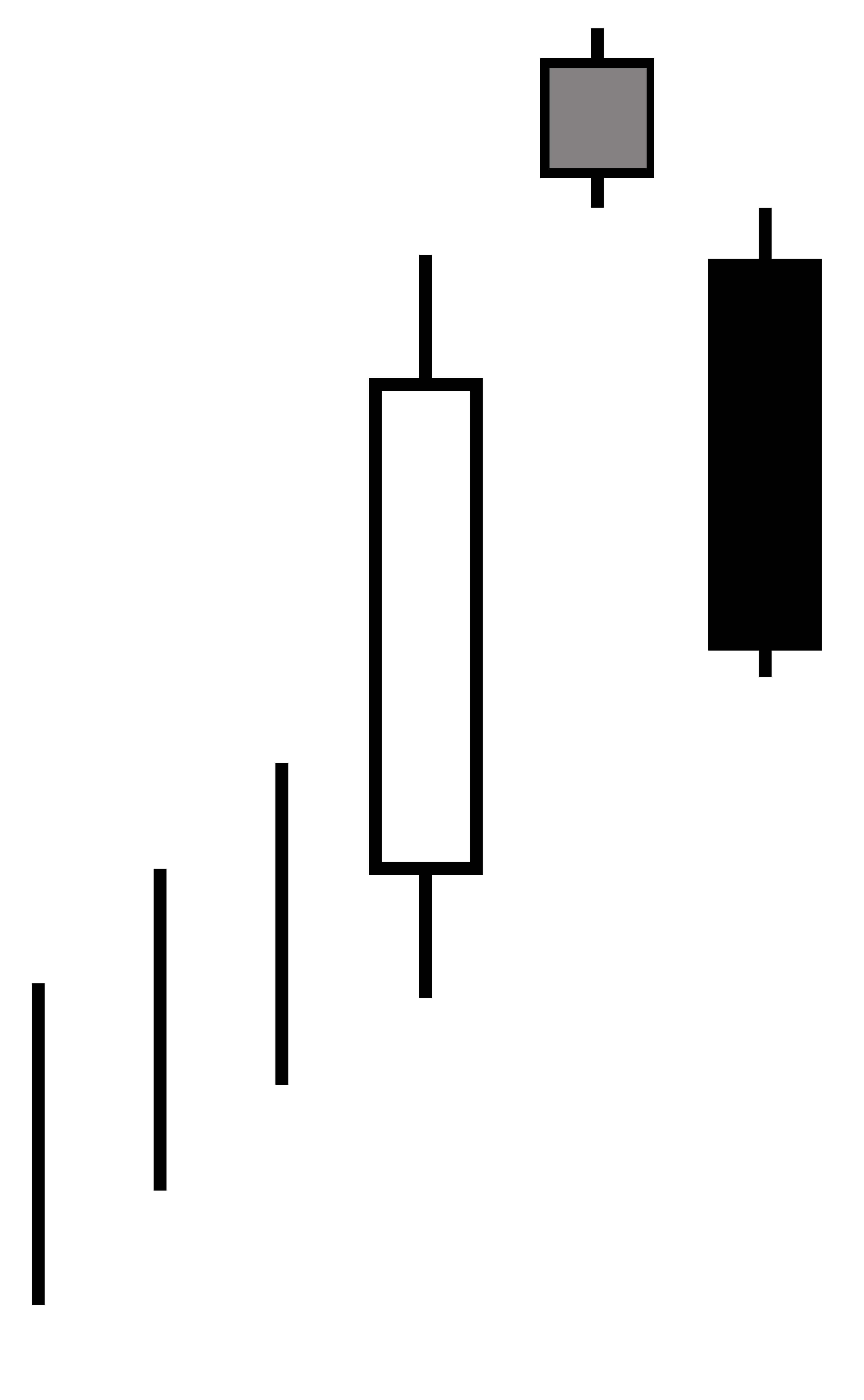 Bearish Evening Star